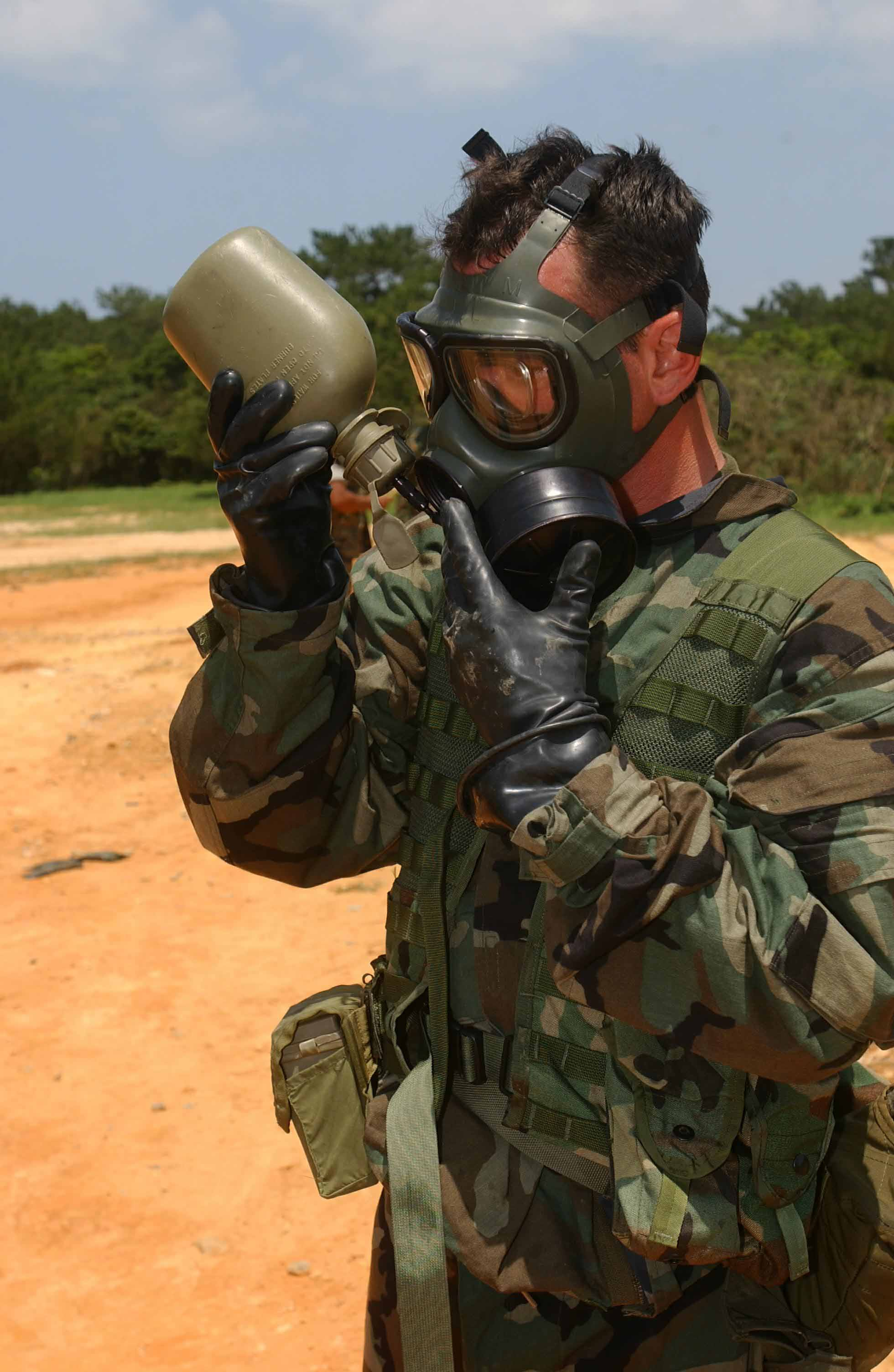 Okinawa, Japan (Apr. 28, 2003) - Hospital Corpsman John Copeck assigned to 3D Medical Battalion, Training Company, takes a break to hydrate after connecting his canteen to his gas mask, while participating in a mass casualty field training exercise at the Central Training Area, Okinawa, Japan. Sailors of 3D Medical Battalion were training over how to perform in a chemical or biological environment. U.S. Marine Corps photo by Lance Cpl. Craig Williamson. (RELEASED)